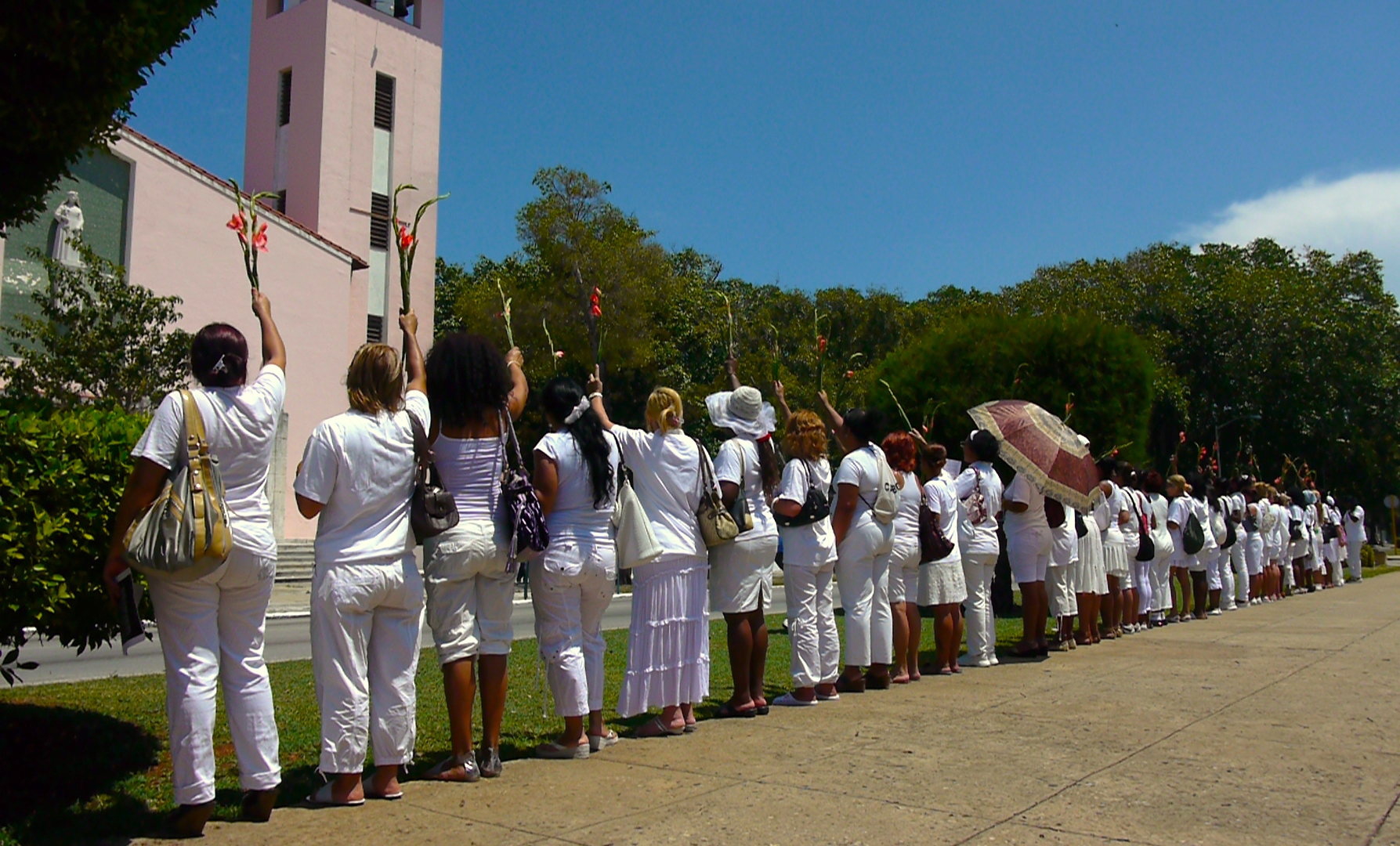 Members of Cuban human rights group "Damas de Blanco" at their weekly demonstration following Sunday mass at Santa Rita church in Havana.